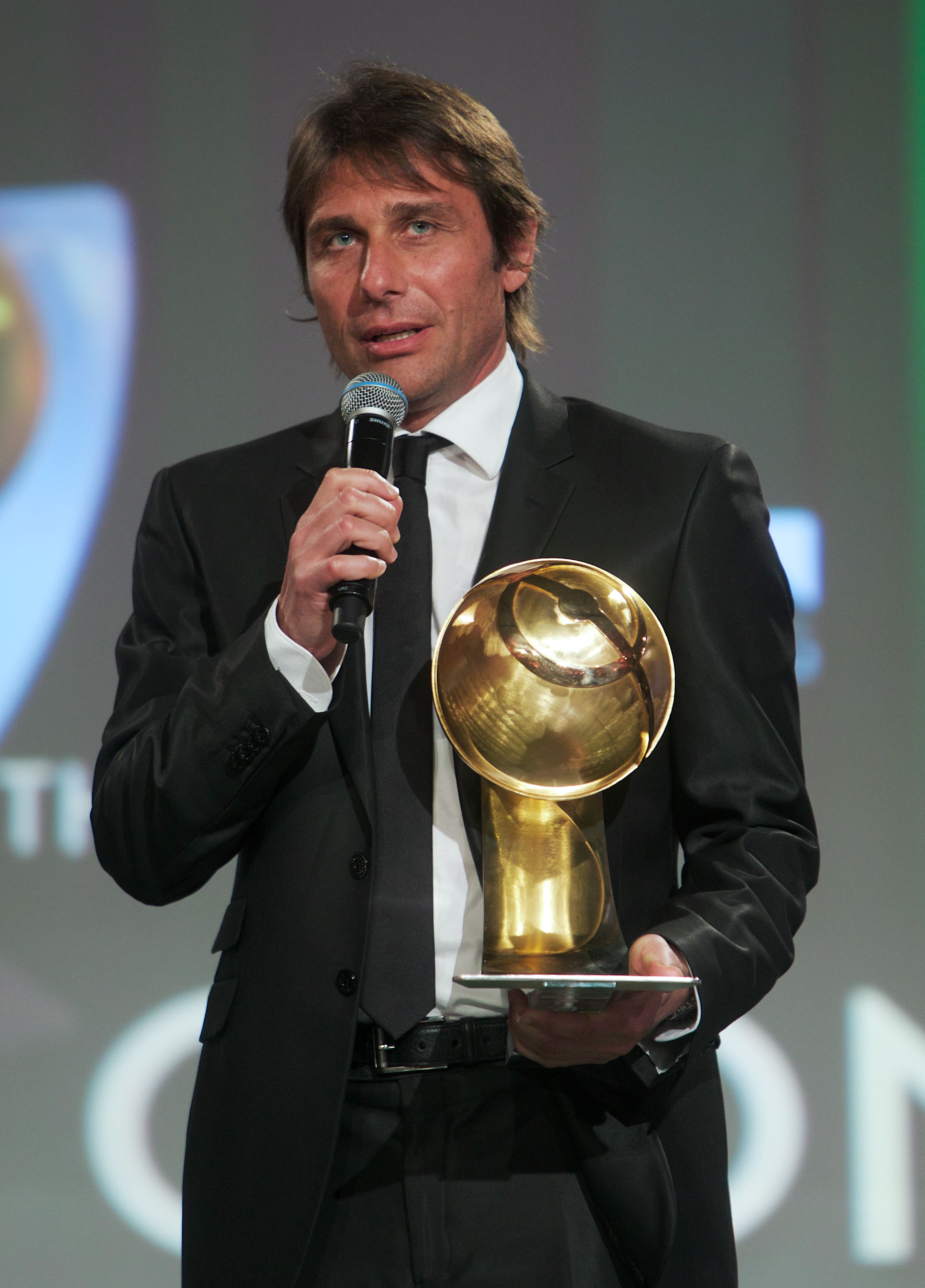 Antonio Conte - BEST COACH OF THE YEAR AWARD